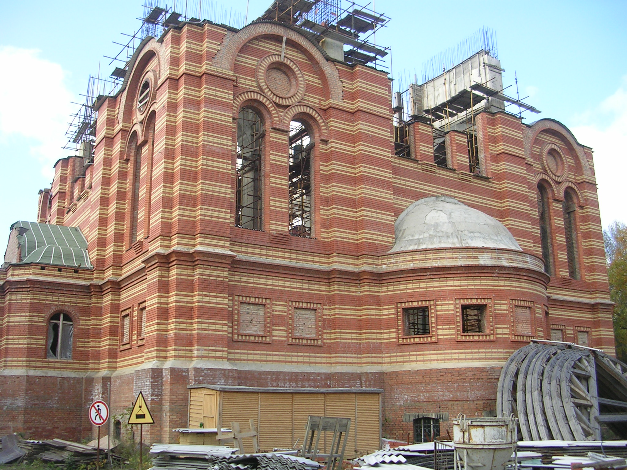 Ascension of Christ Temple in Elektrostal in 2010 year.